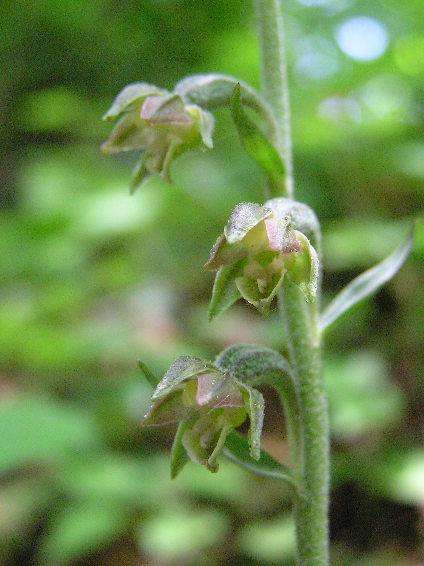 One specimen of small-leaved-helleborine in the first known population found in Canton Geneva